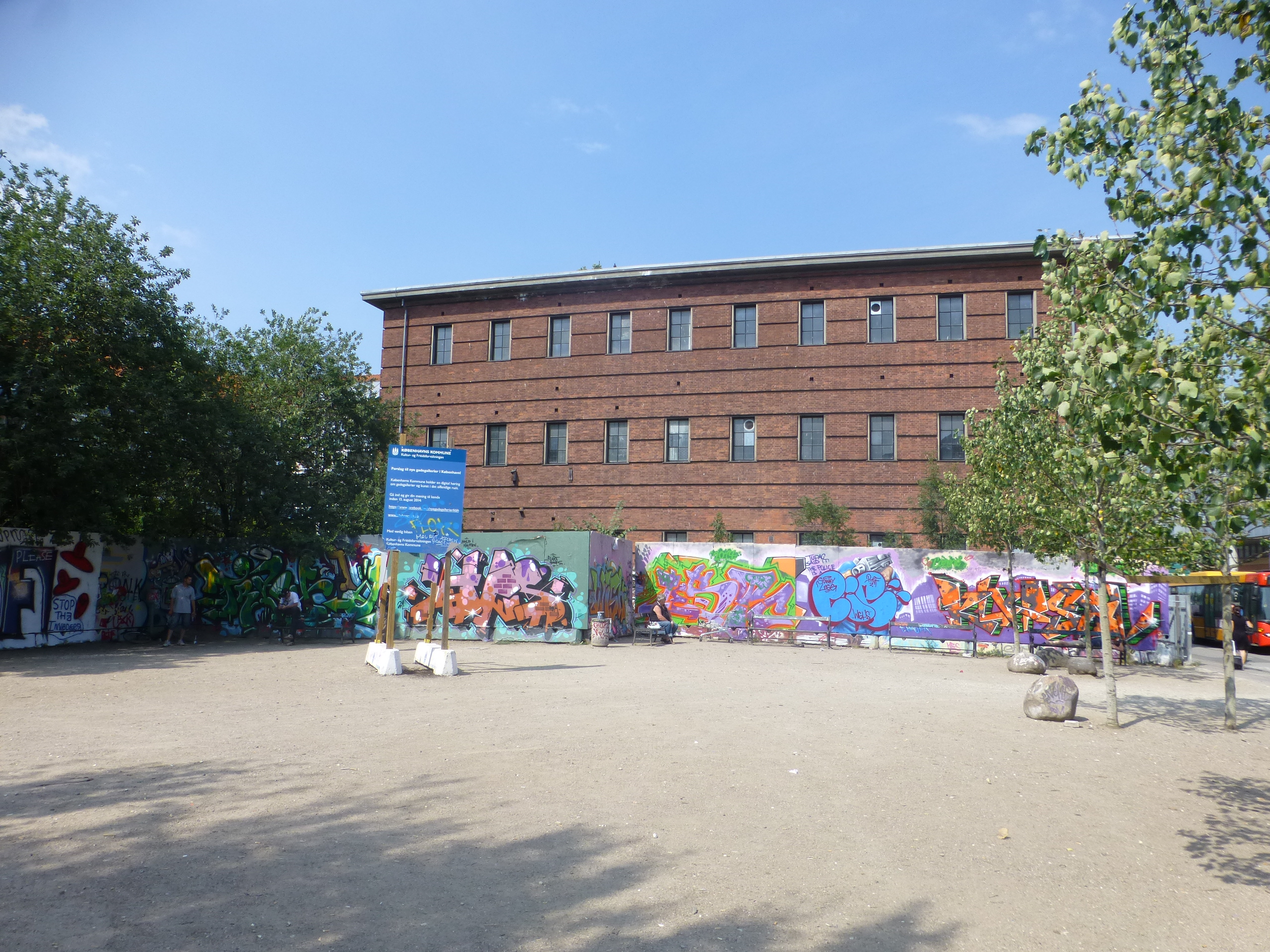 The unofficial square Skodapladsen in Nordvest in Copenhagen.